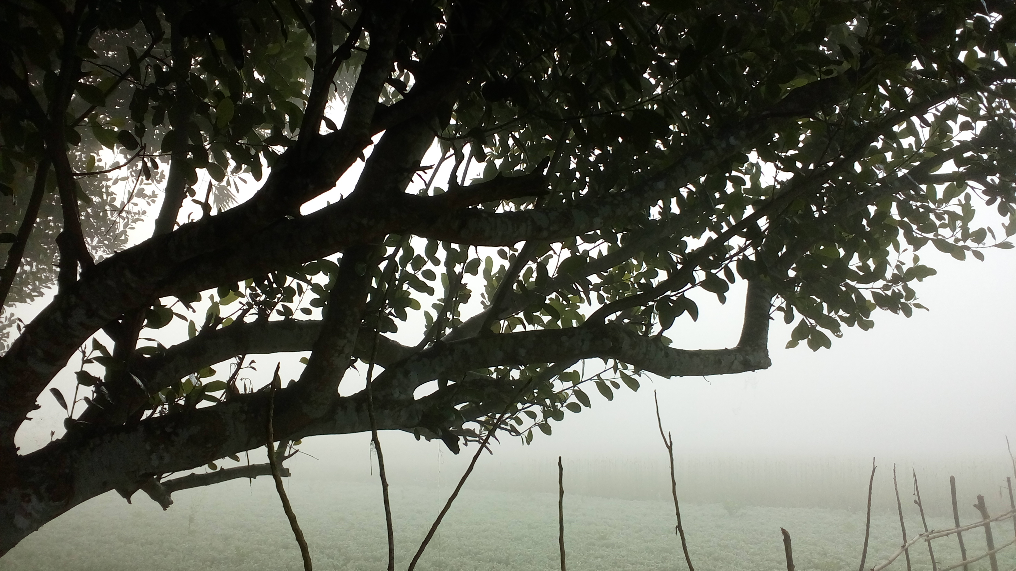 Beauty of Nokari in Winter